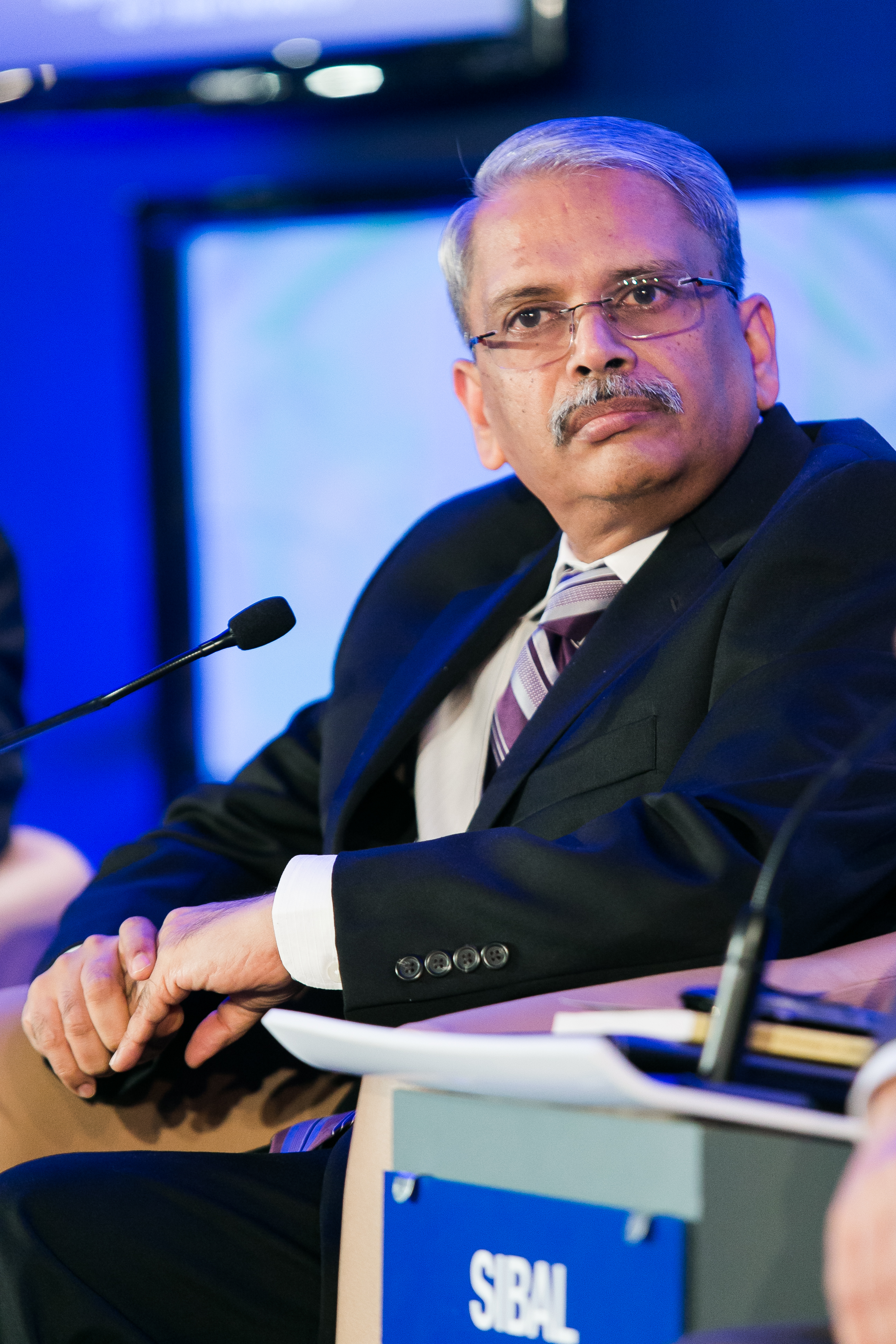 Kris Gopalakrishnan, Executive Co-Chairman, Infosys, India; Co-Chair of the World Economic Forum on India at the World Economic Forum on India 2012. Copyright World Economic Forum / Photo by Benedikt von Loebell